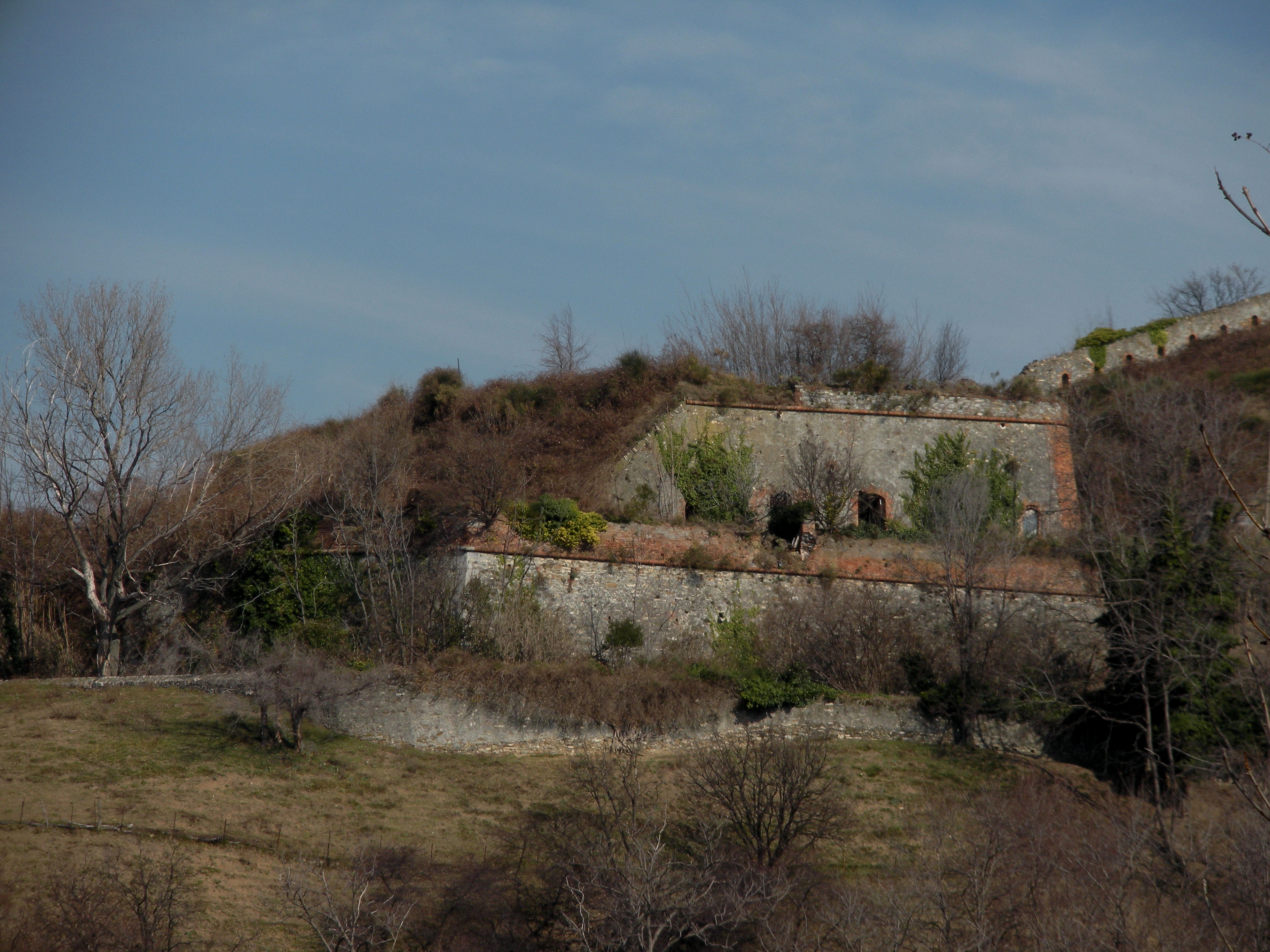 Genoa (Italy), Fort Crocetta